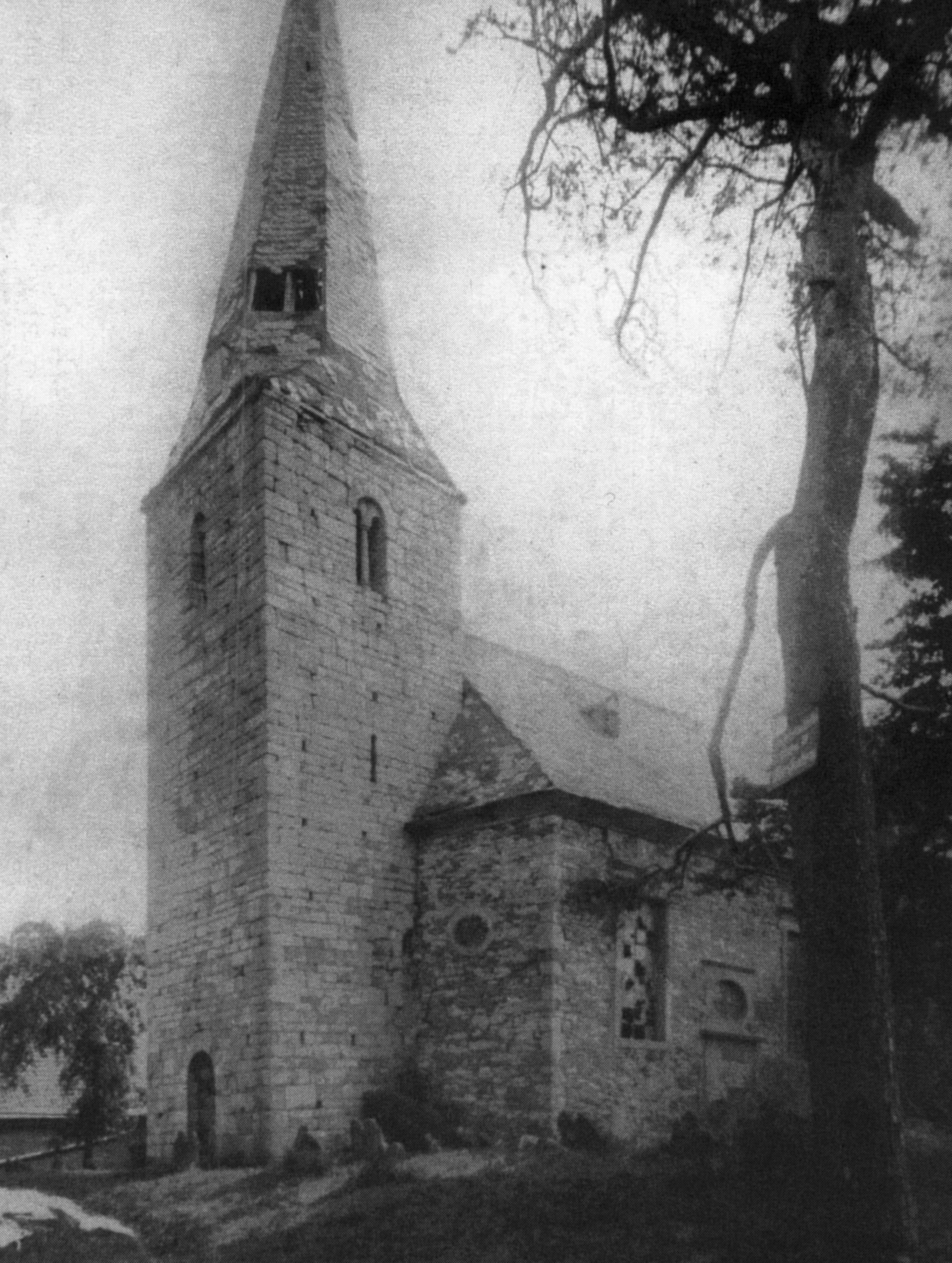 Alte Ümminger Kirche in Bochum